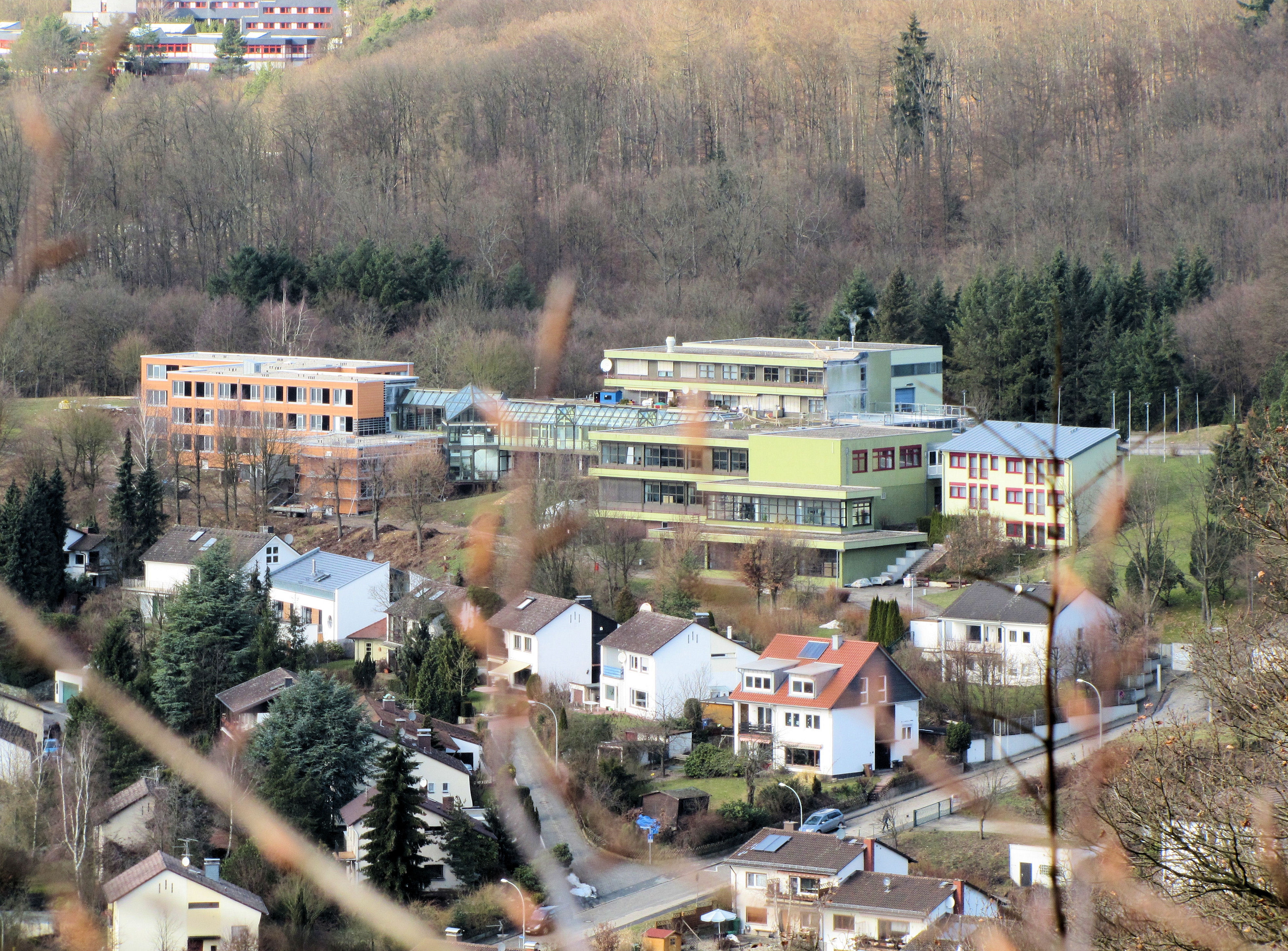 Vocational cooperative education institut in Eppstein, Main-Taunus-Kreis, Hesse, Germany